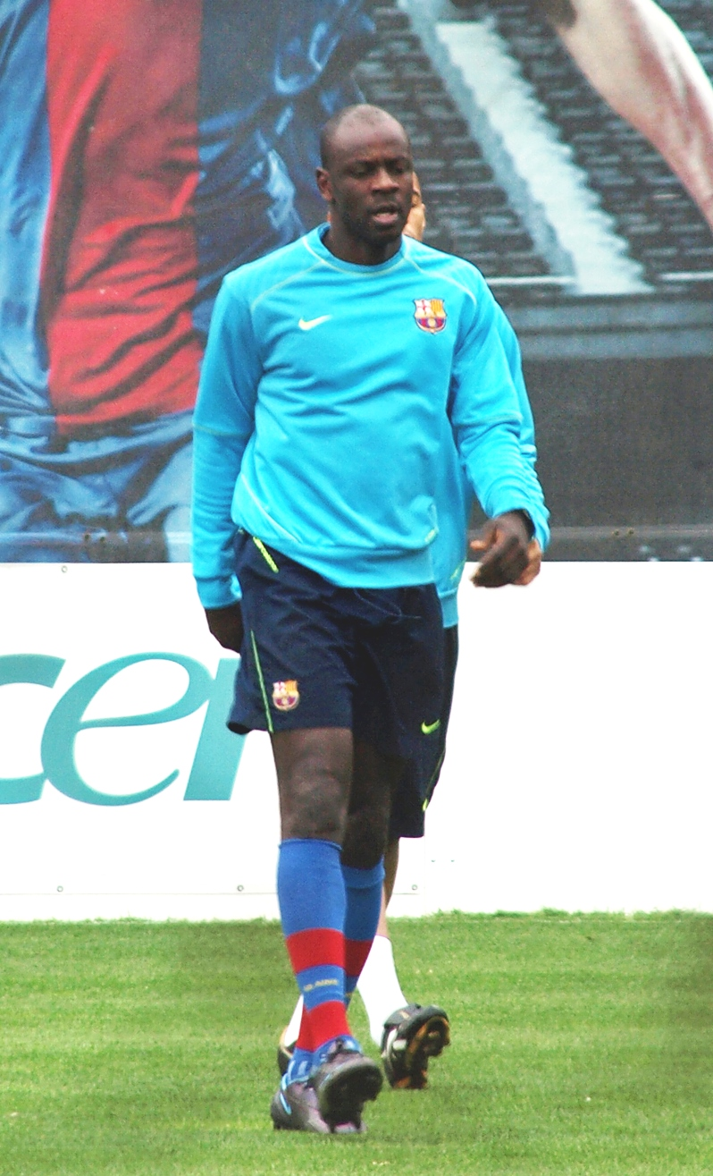 Lilian Thuram (January 1, 1972 in Pointe-à-Pitre, Guadeloupe, France) is a male French professional football defender who plays for FC Barcelona and is the most capped player in the history of the France national team.